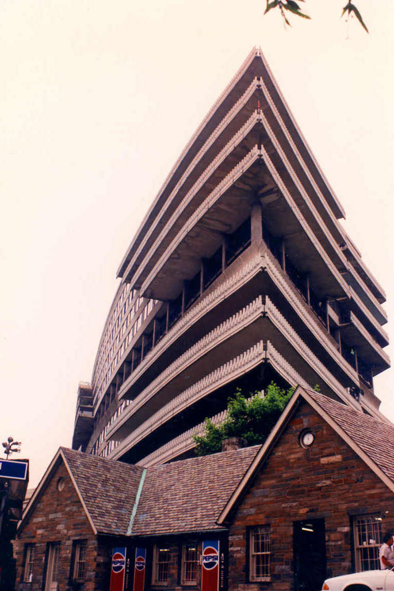 The Watergate . Virginia Avenue & Rock Creek Parkway . NW WDC . 2 June 1992